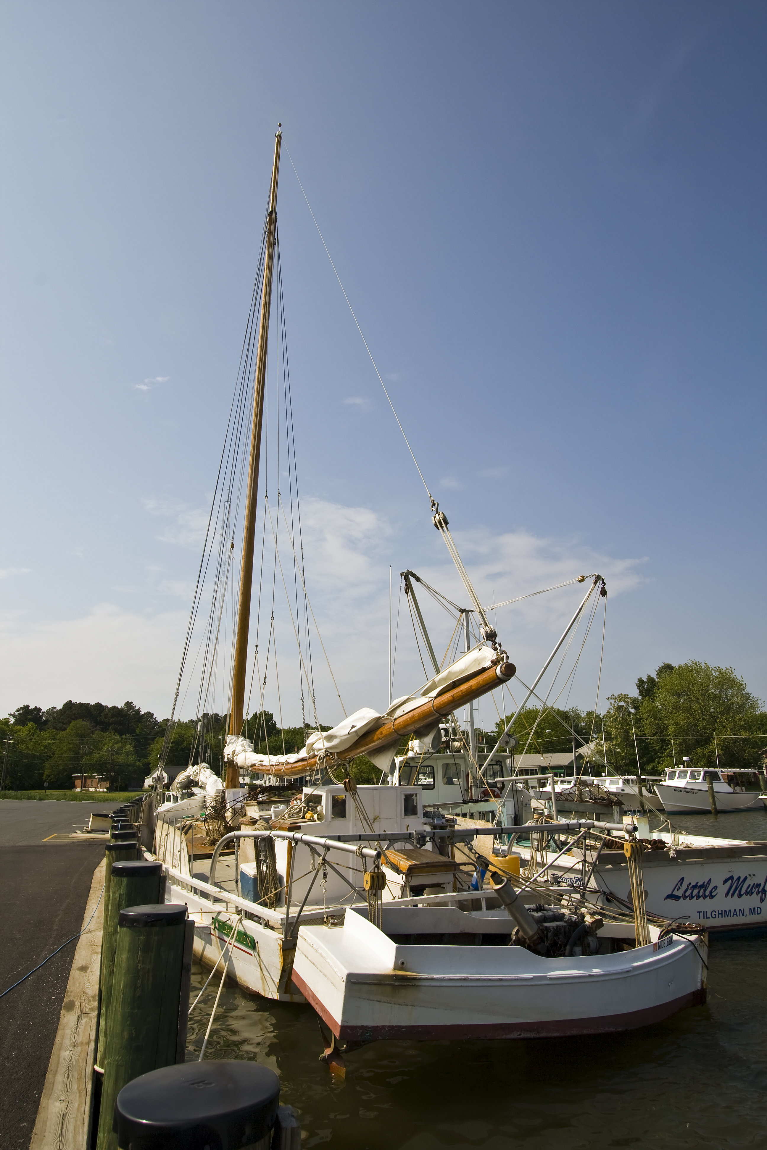 Thomas W. Clyde skipjack and pushboat at Dogwood Harbor, Tilghman, Maryland USA